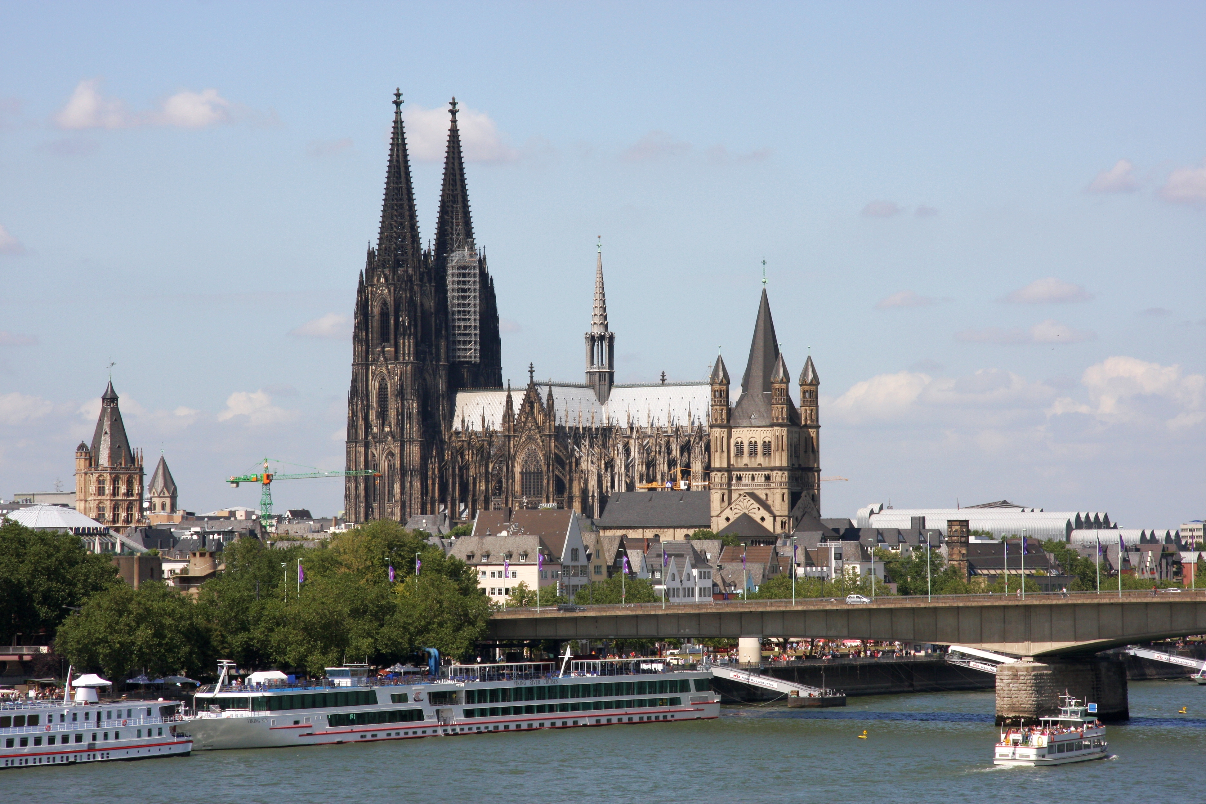 Cologne Cathedral (in the middle) and Great St. Martin Church right-hand in Cologne (Germany)